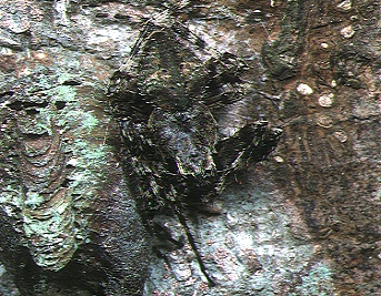 male Araneus ventricosus from Okinawa.